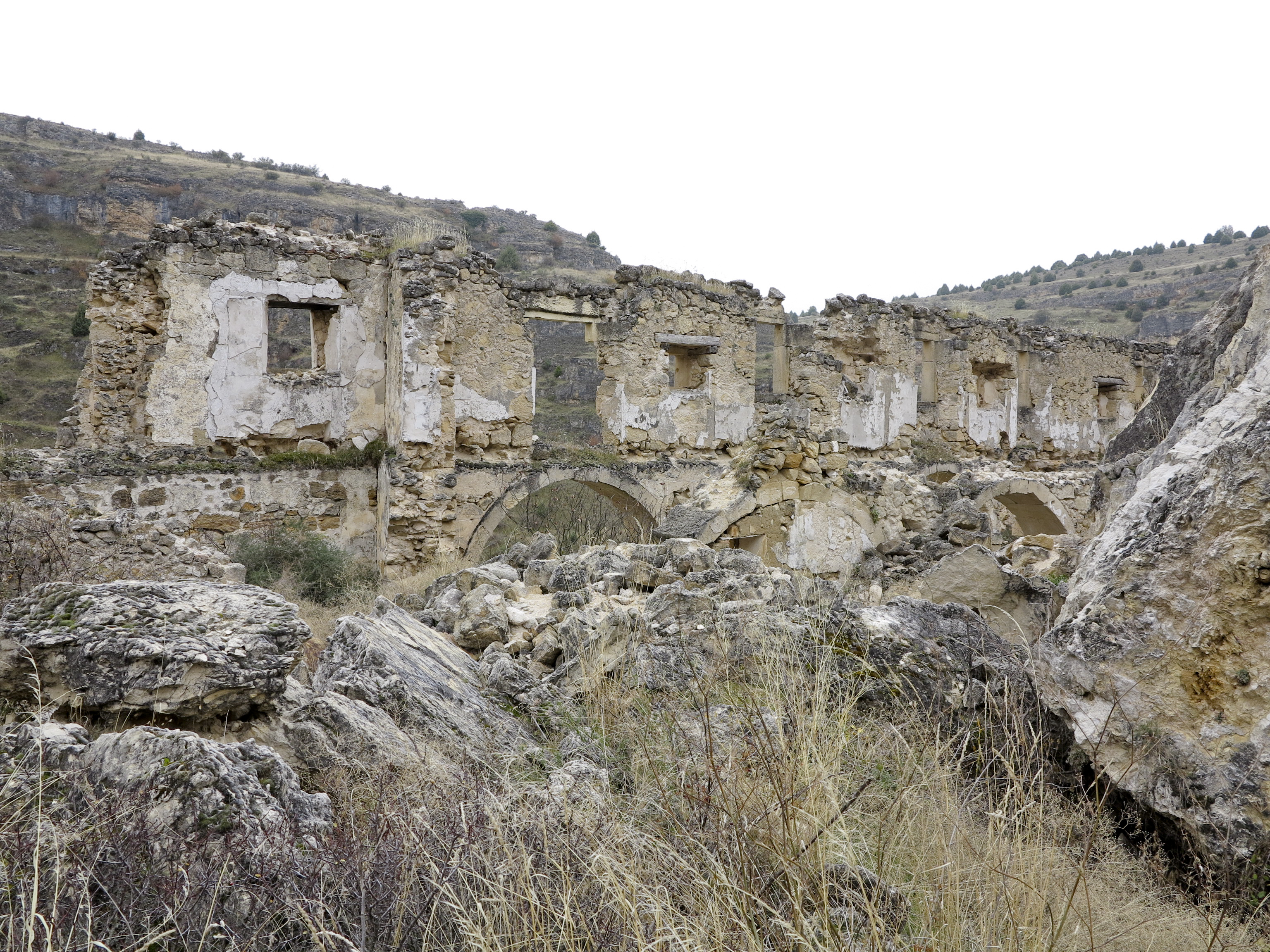 Monasterio de Nuestra Señora de la Hoz/Convento de la Hoz. Hoces de Duraton, Sepúlveda, Provincia de Segovia, Castilla y León, Spain.